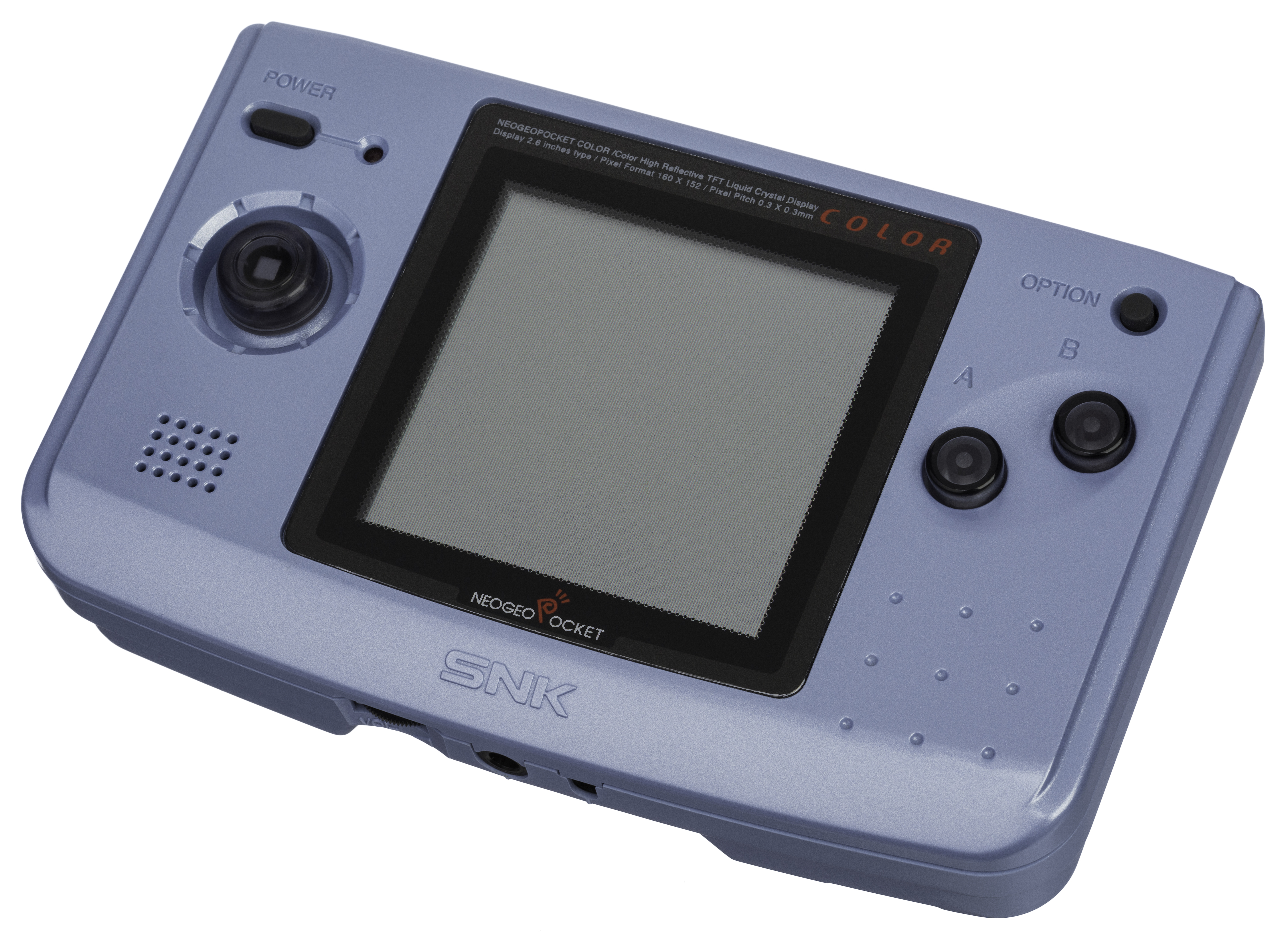 The Neo Geo Pocket Color, a handheld gaming console released by SNK in 1999. A quick follow up to the Neo Geo Pocket, this system was released in Japan, America and Europe.